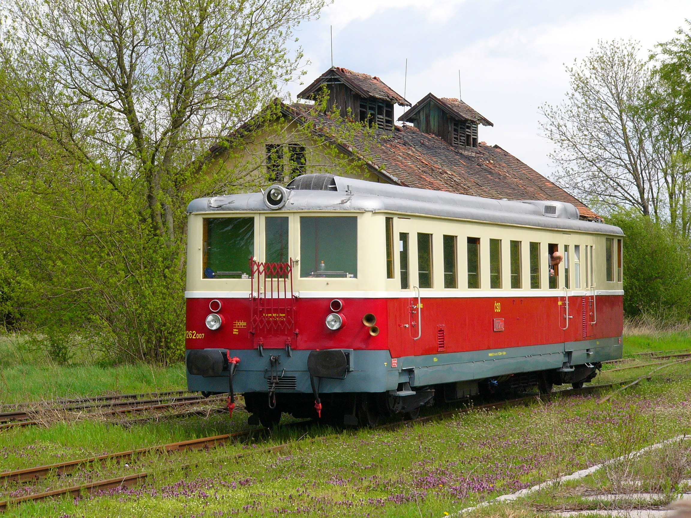 M262.007, Plavecký Mikuláš, retro-ride, April 2008